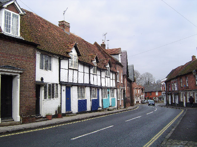 Church Street, Chesham. Looking north east along one of the oldest streets in Chesham.